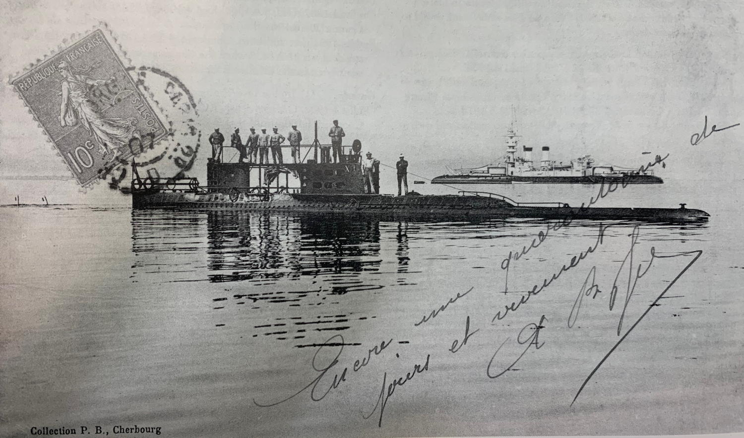 French sumbarine X